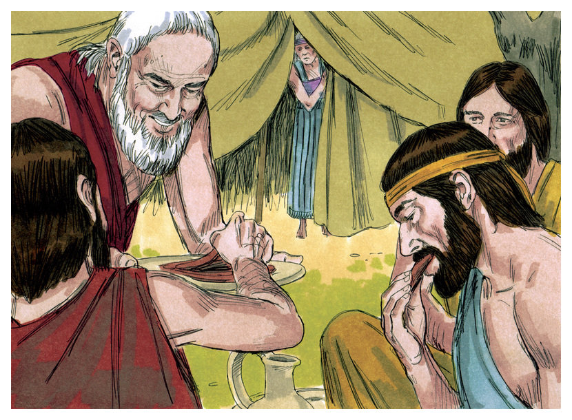 Biblical illustration of Book of Genesis Chapter 18